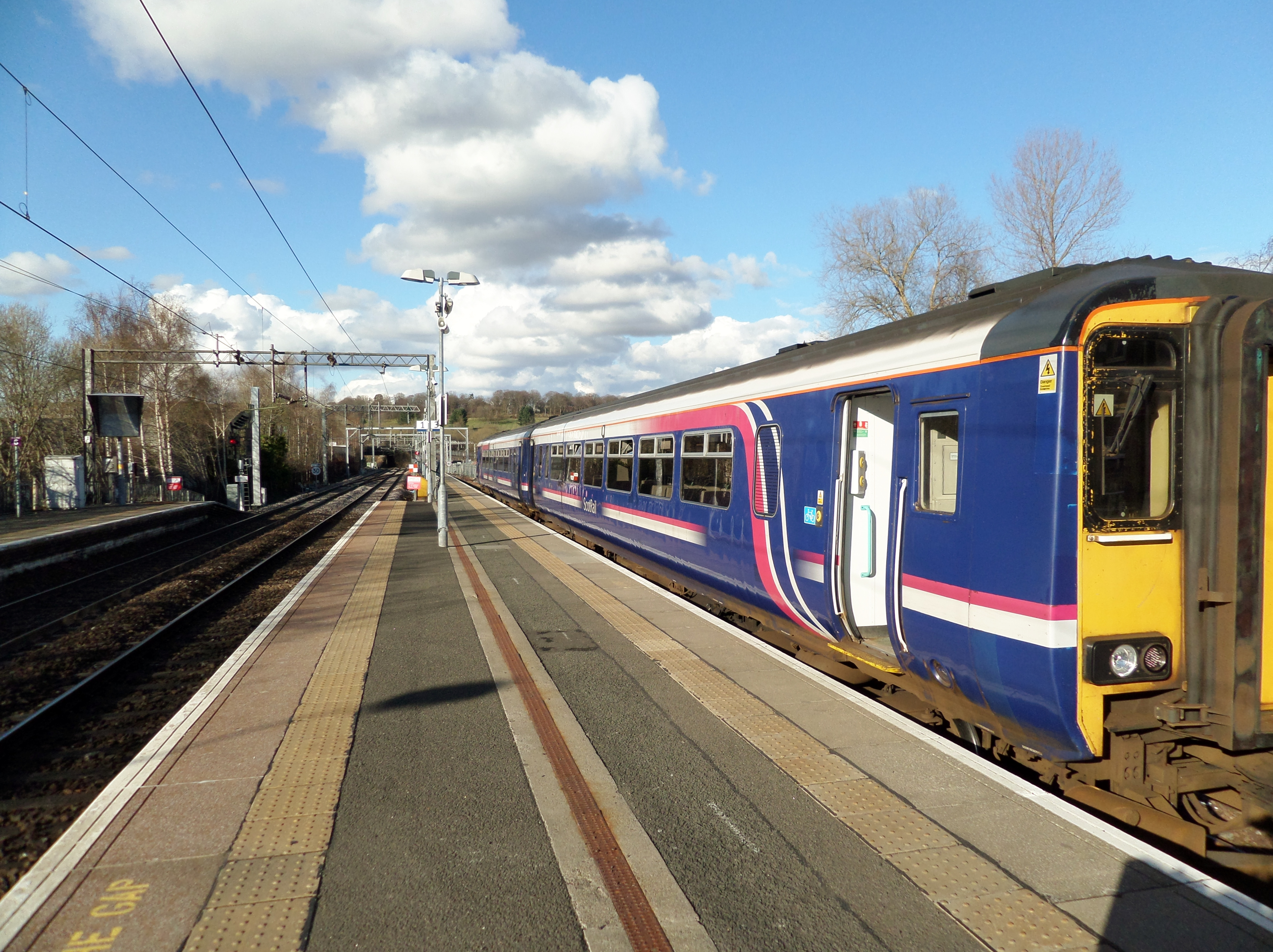 Anniesland railway station with train for the Maryhill Line at the bay platform. Glasgow, Scotland.